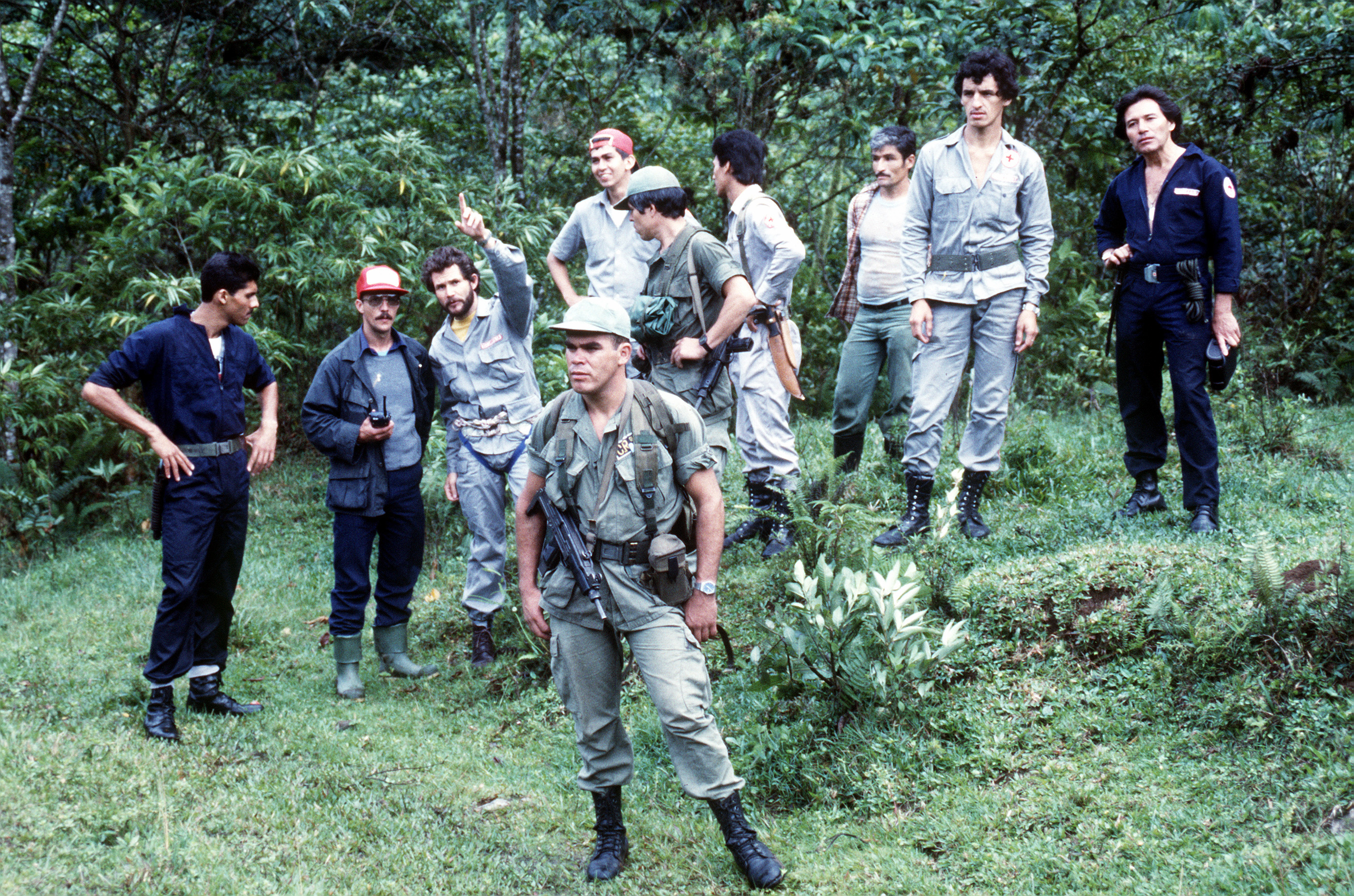 Costa Rican police and Red Cross workers wait for a Detachment 1, 1st Special Operations Wing UH-1N Iroquois helicopter to transport them on a search and rescue mission.